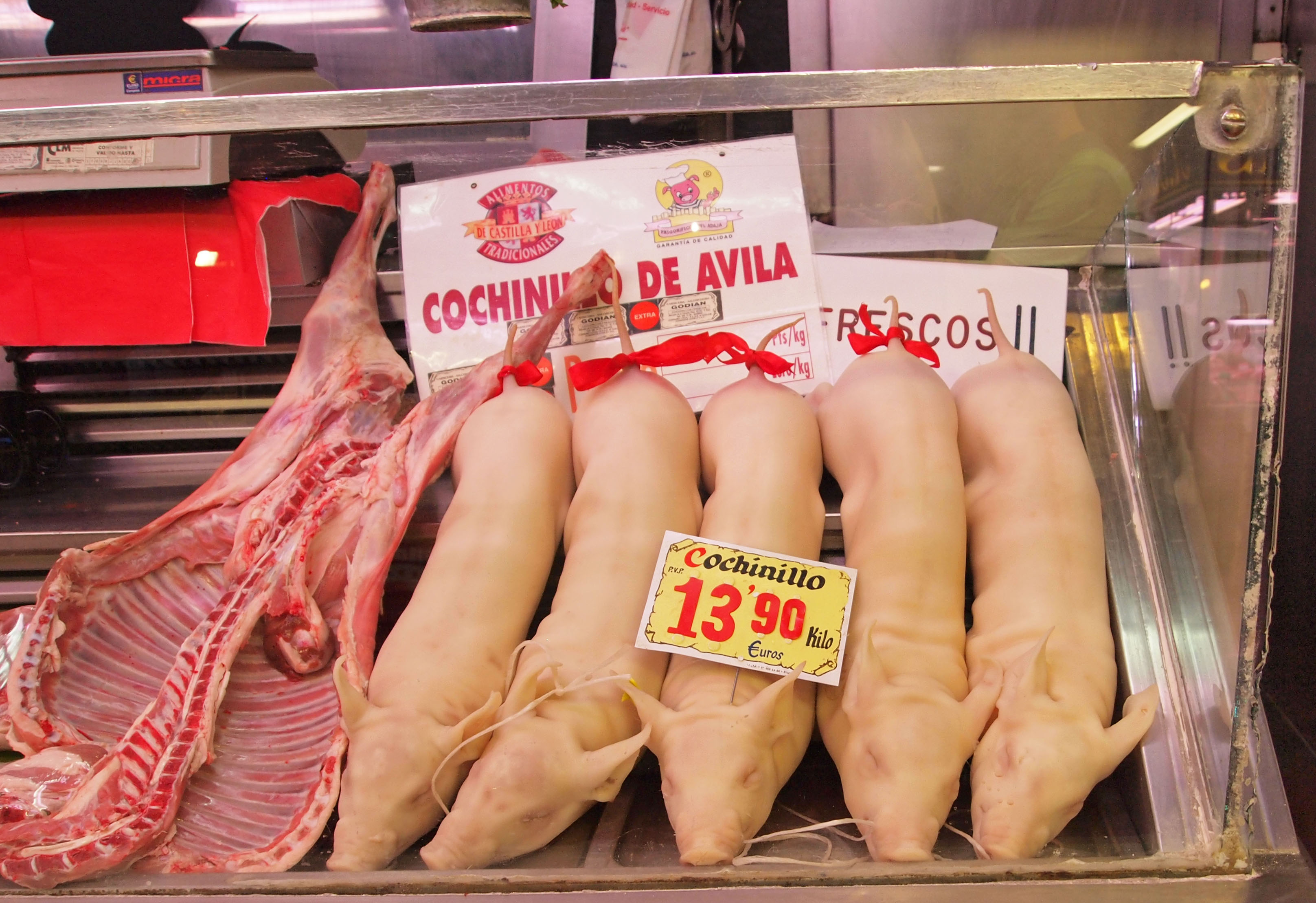 Pigs in Mercado de la Cebada, Madrid. This photograph was taken with a Olympus E-PL1.